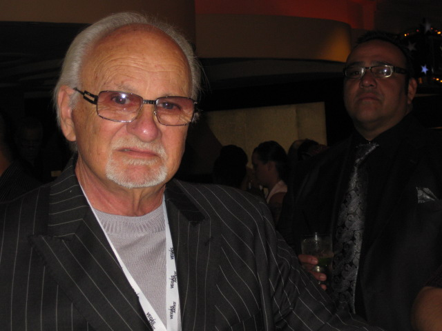 Photo of Frank Cullotta